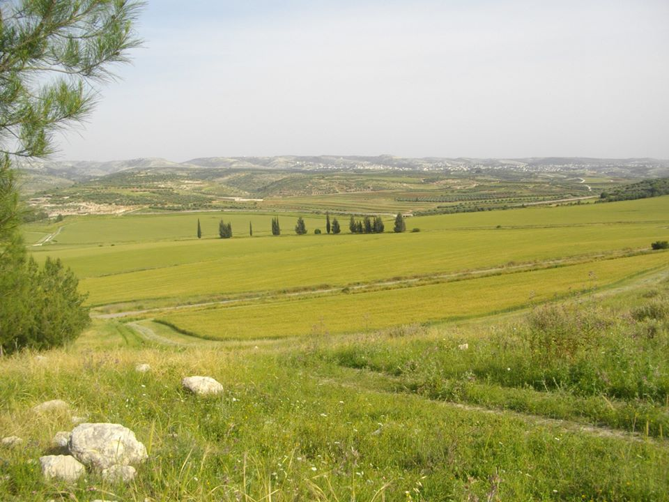 The photo, taken by me, is of the Elah Valley's southeastern side.